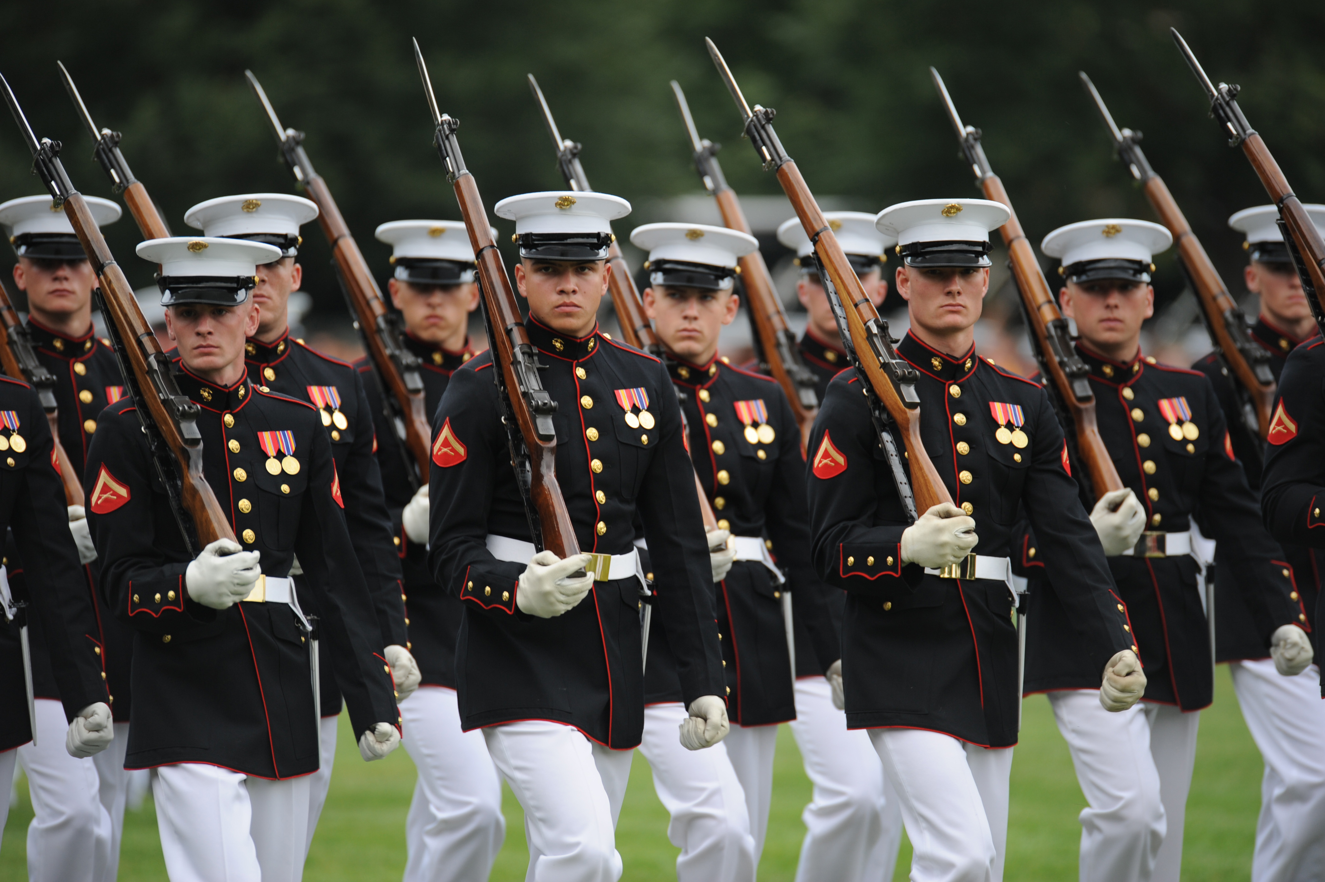 U.S. Marines from Marine Barracks Washington march by during the pass and review portion of the Sunset Parade at the Marine Corps War Memorial in Arlington, Va., on June 15, 2010.